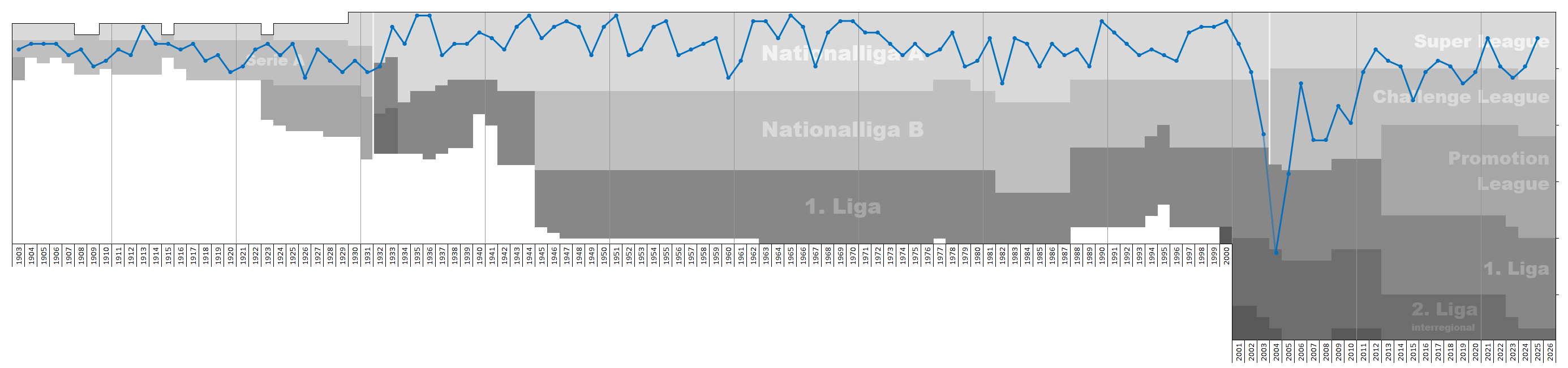 Chart of end-season table positions for FC Lausanne-Sport in the Swiss football league system. Data source: RSSSF, , al-la.ch